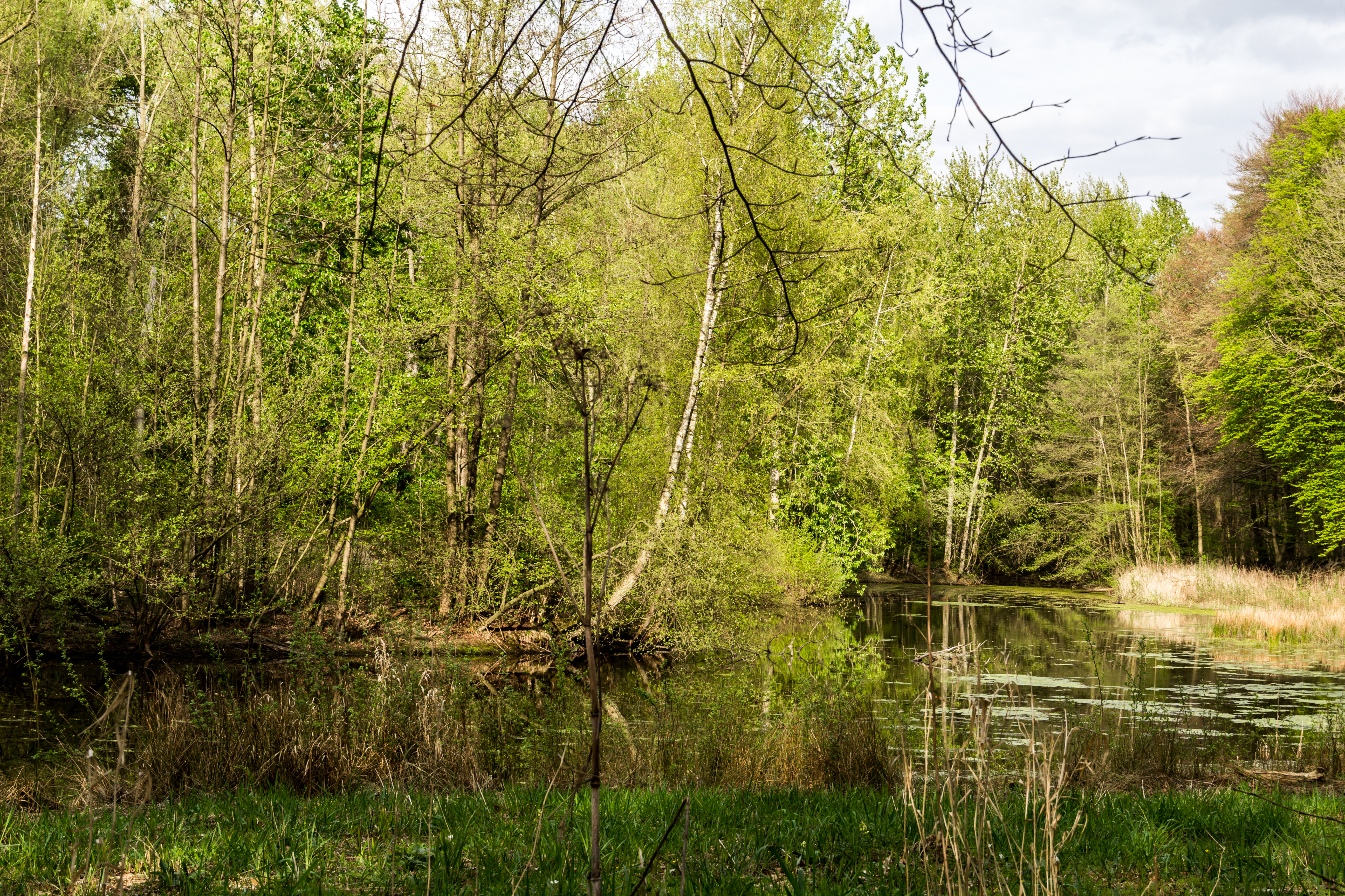 Natural forest “Teppes Viertel” in the Wolbecker Tiergarten in Wolbeck, Münster, North Rhine-Westphalia, Germany